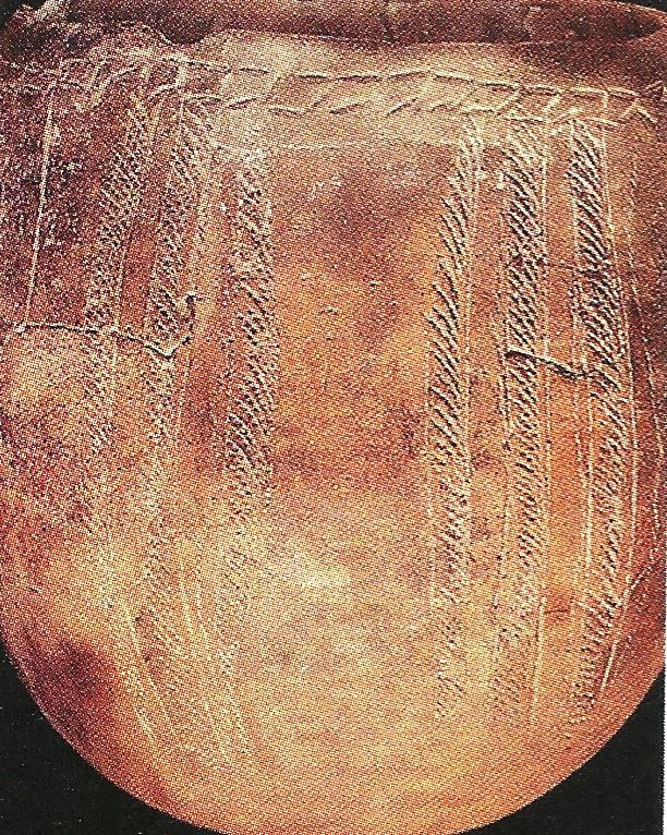 Pottery of Asa Koma, Dikihl Region in Djibouti